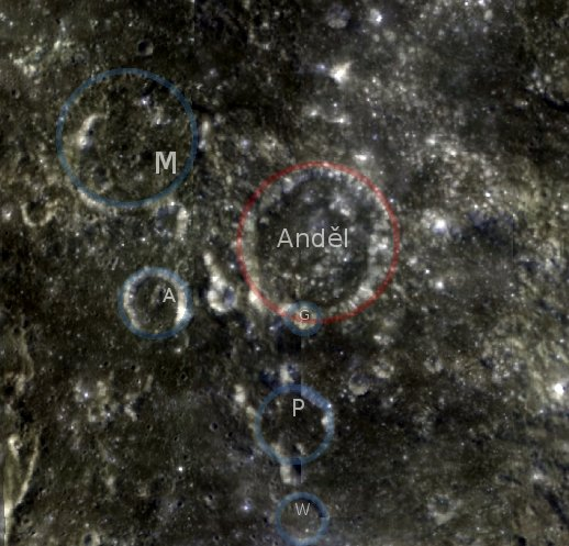 Anděl crater and satellite craters A, G, M, P and W marked in the equatorial region on the near side of the Moon. Cropped and annotated version (by uploader) of computer generated image by PDS MAP-A-PLANET.